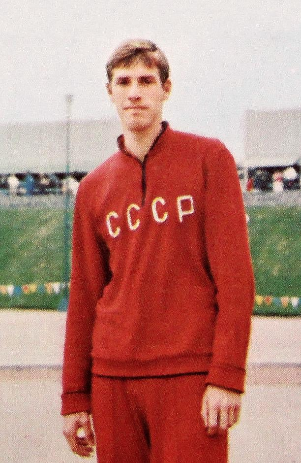 CAMPIONI DELLO SPORT 1969/70-n.64-GAVRILOV (URSS)-ATLETICA LEGG.-rec